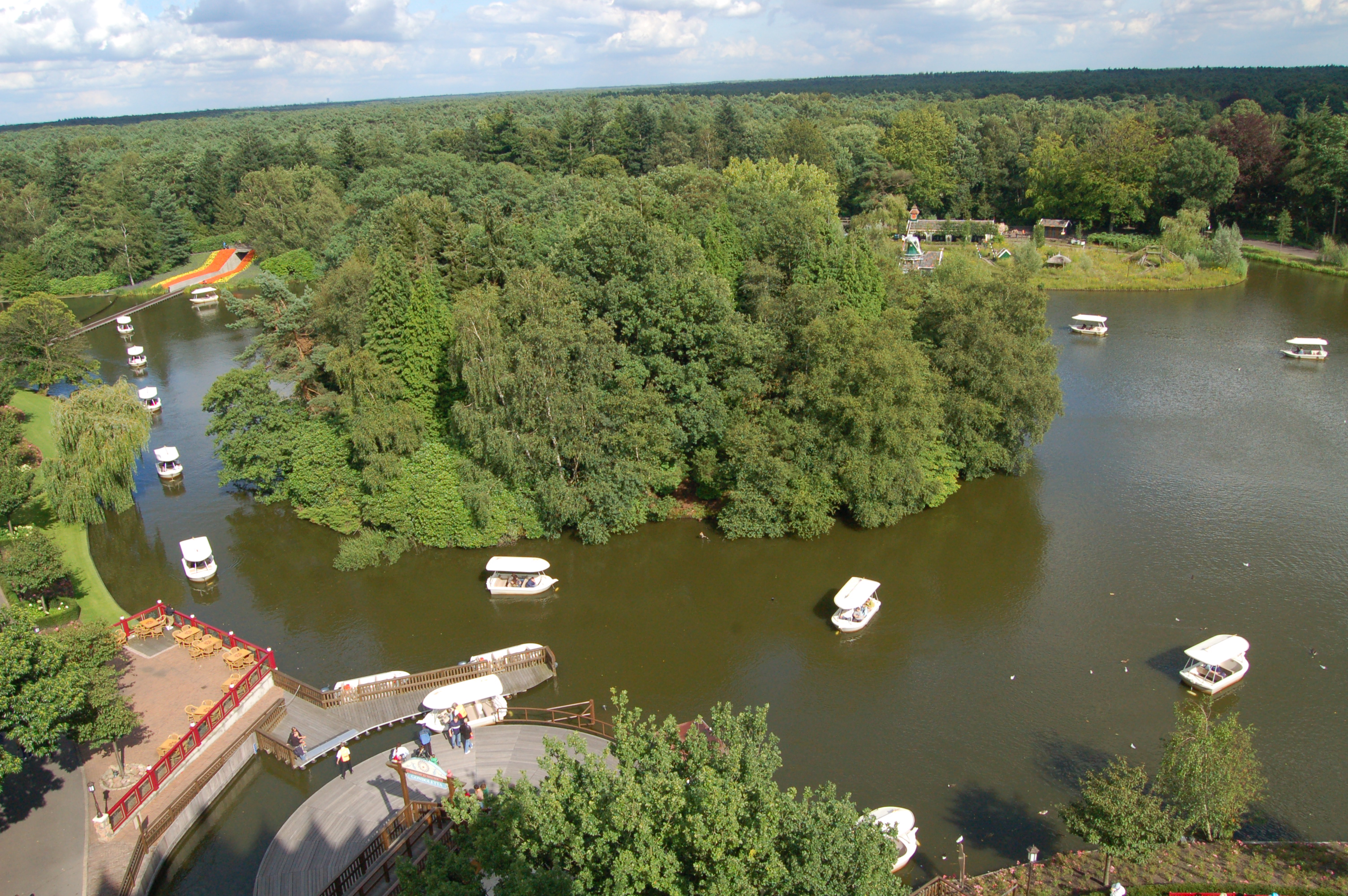 Aerial view on the Gondoletta in the Dutch theme park Efteling.